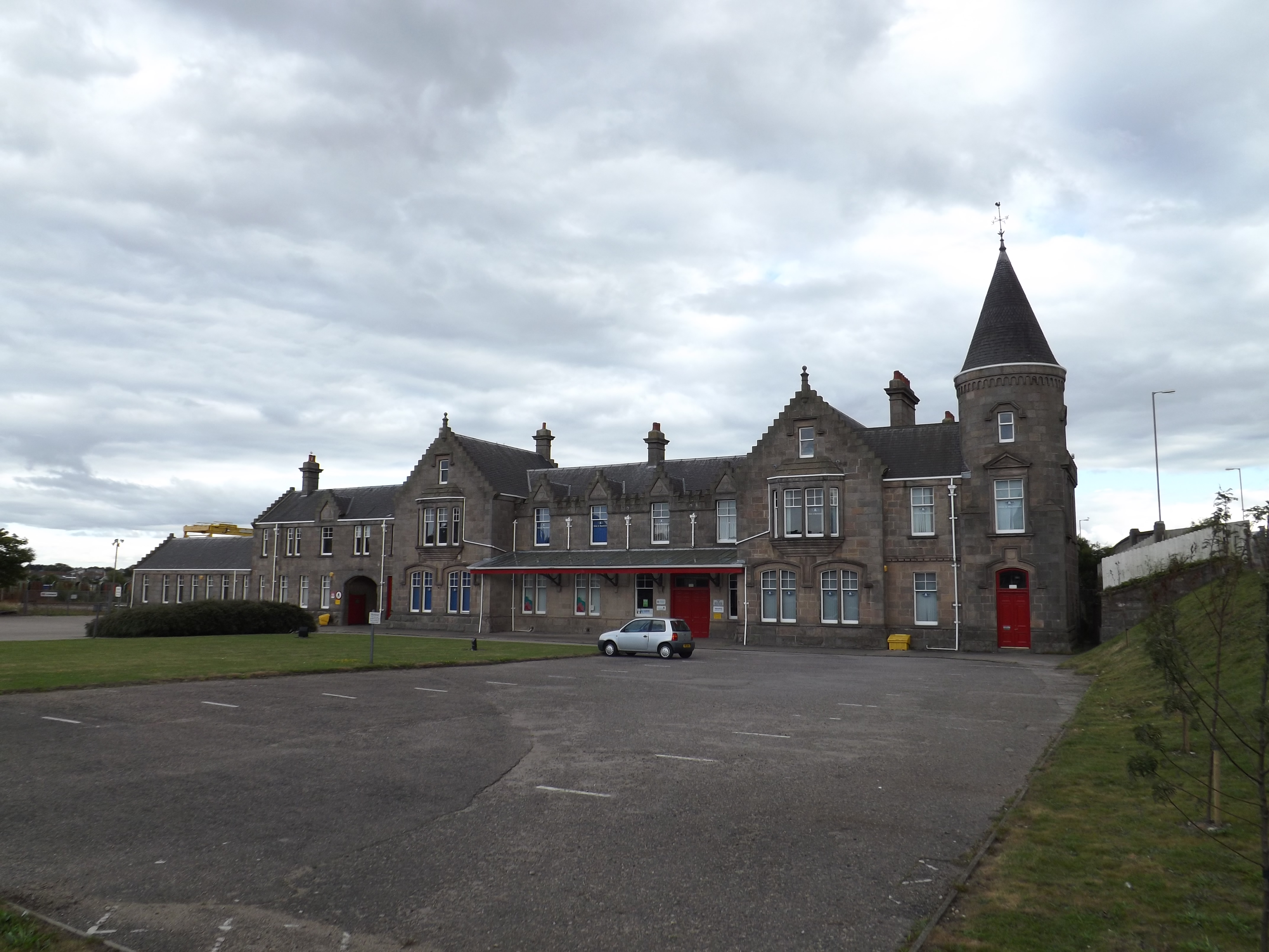 The former Great North of Scotland's Elgin railway station was rebuilt in 1902 and is a Category B listed building. The building is current used for other purposes.